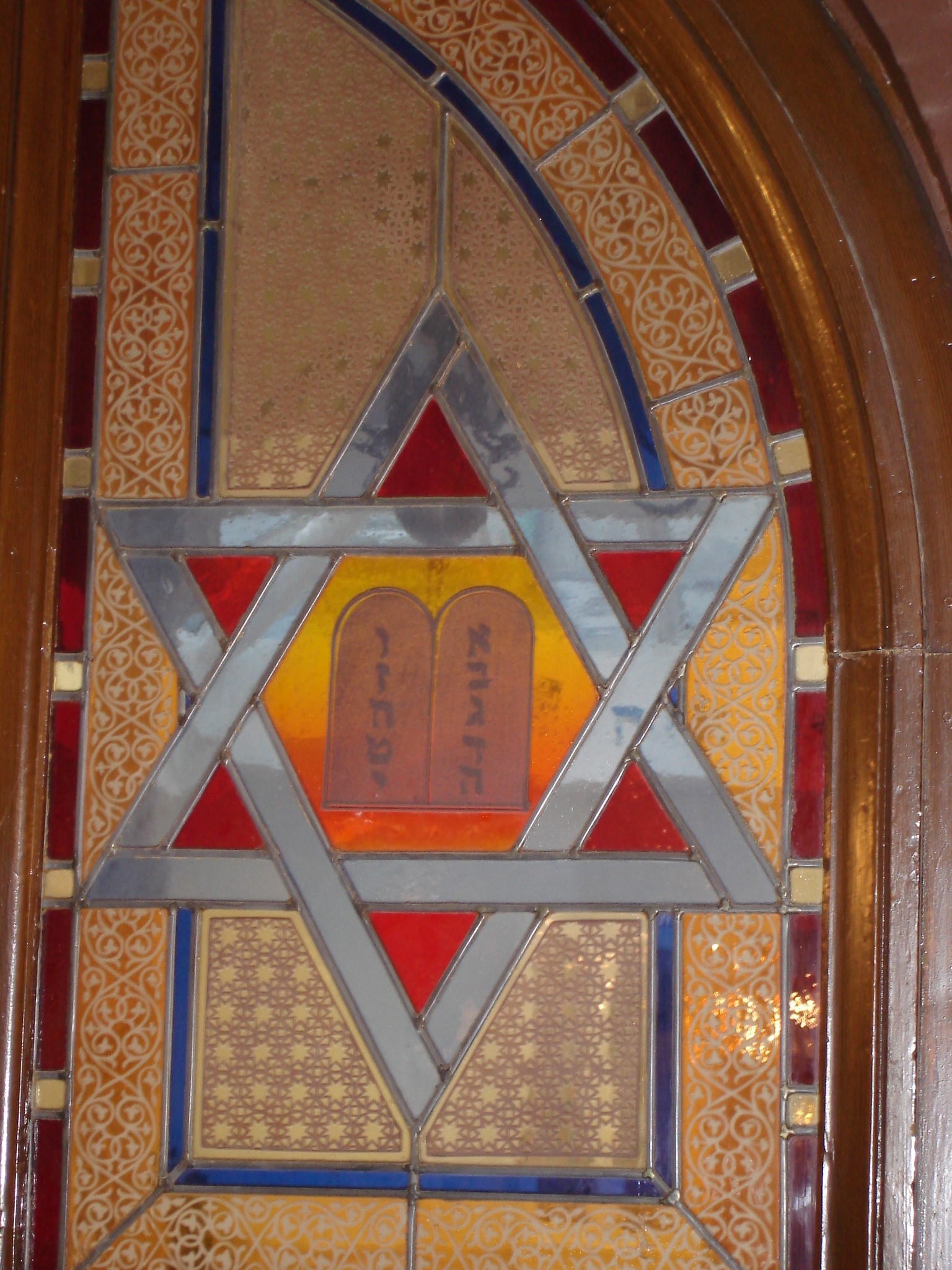 Synagogue de Nazareth, rue Notre Dame de Nazareth in Paris. Internal view